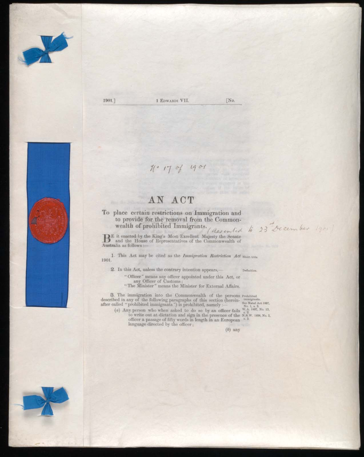 An Act to place certain restrictions on Immigration and to provide for the removal from the Commonwealth of prohibited Immigrants - [Immigration Restriction Act 1901] Series number = A1559 Barcode =11421113